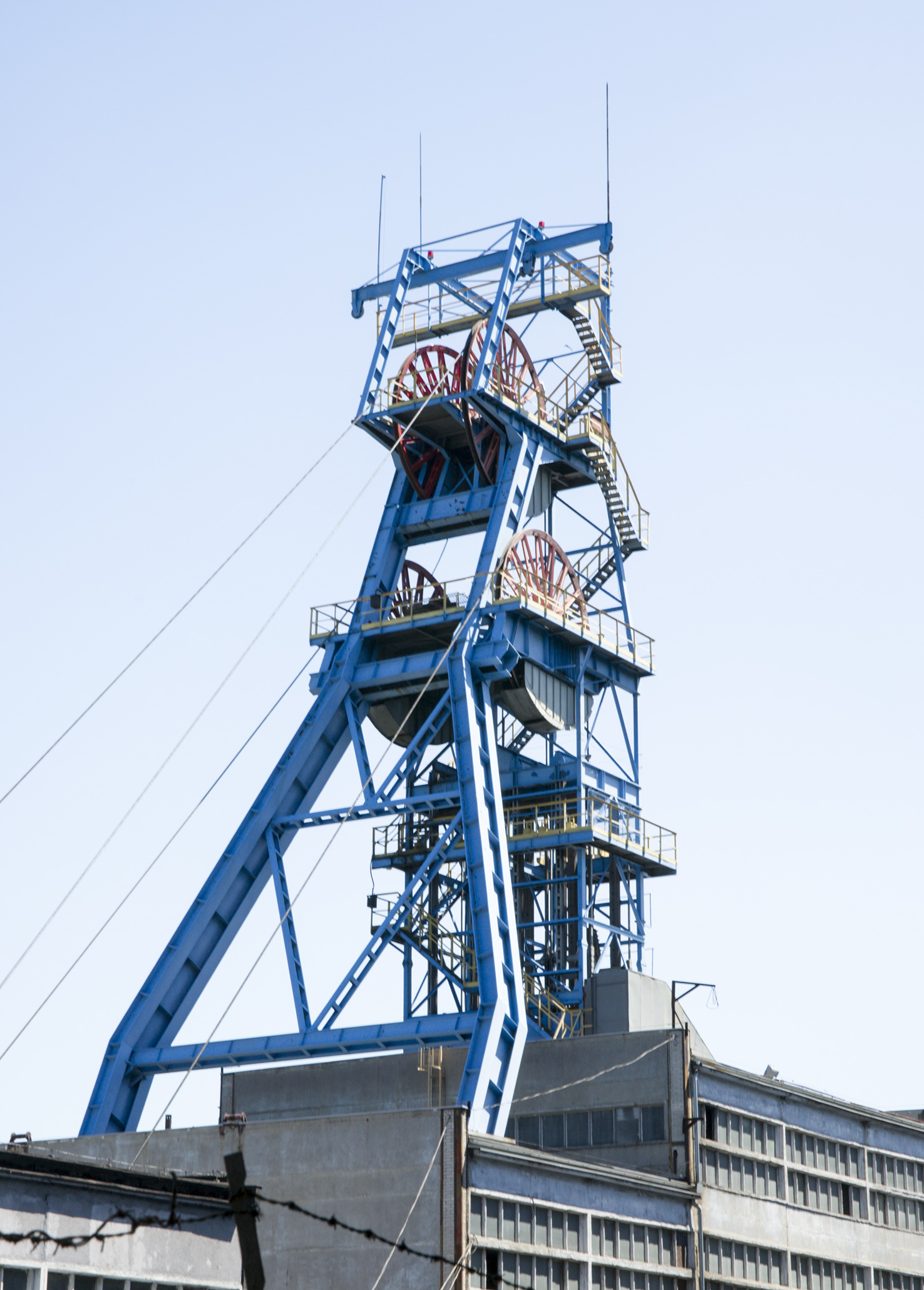 Winding tower of Sobieski III shaft, Sobieski coal mine in Jaworzno.